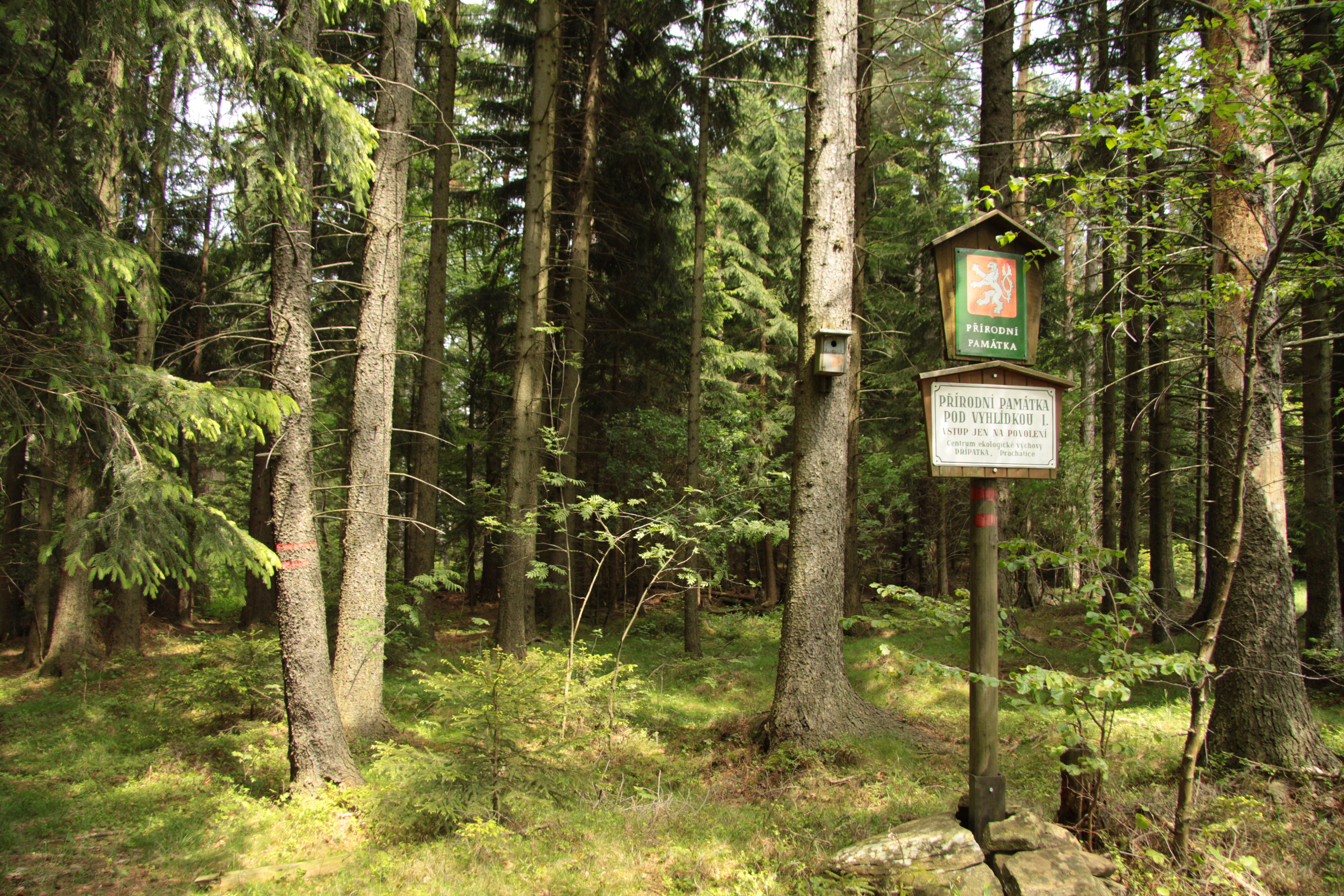 Natural monument Pod Vyhlídkou near Nebahovy village, Prachatice District, Czech Republic - Google Maps - Google Earth